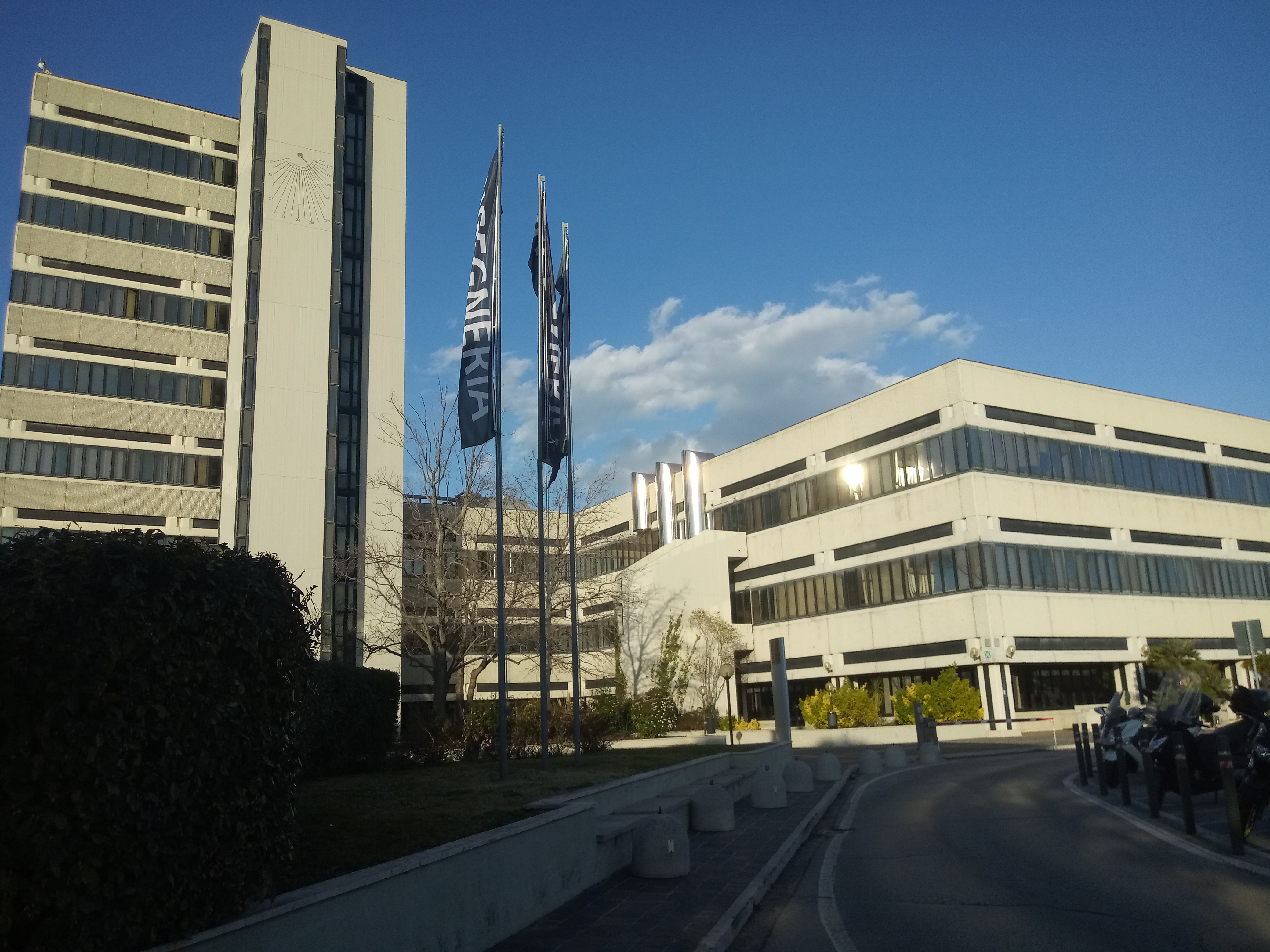 Head office of the university, with the banks of the engineering department